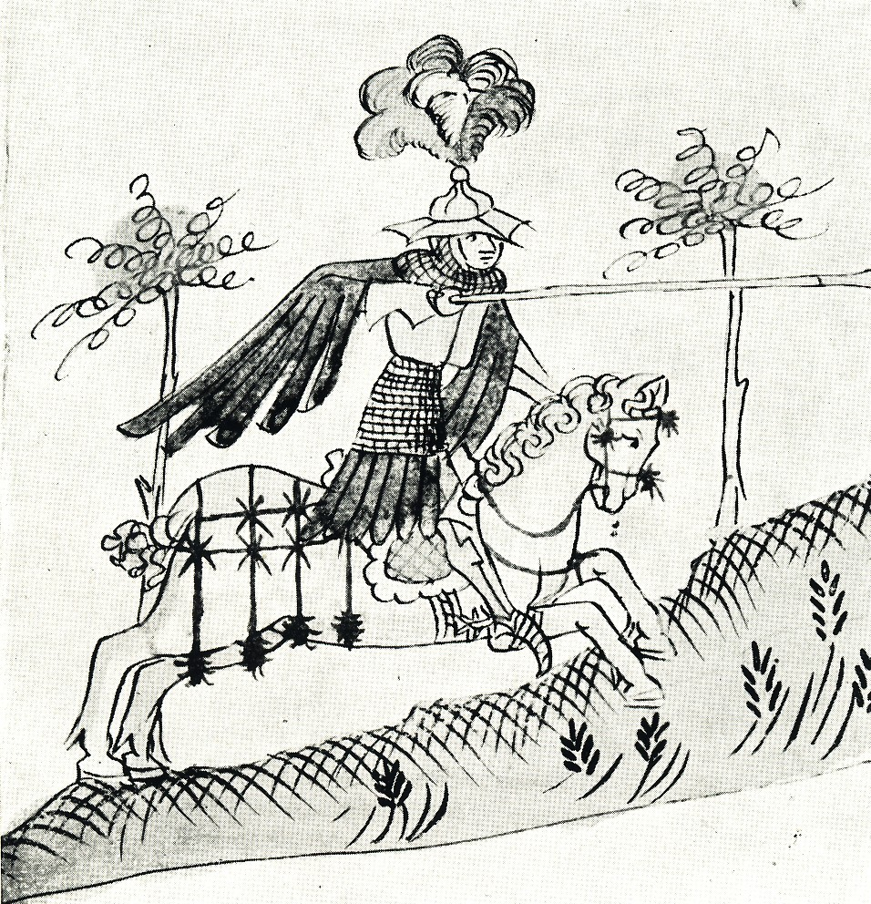 Ortnit fights against the dragon - scene of the medieval long poem Ortnit.